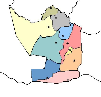 Map of the Misiones Department in Paraguay